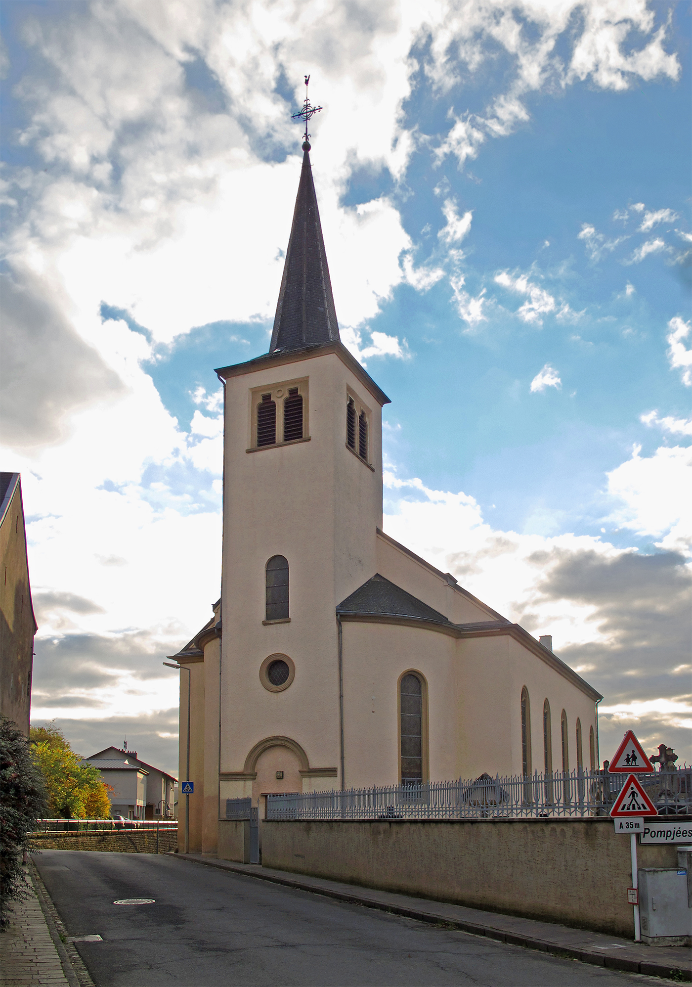 Church of Osweiler, Luxembourg